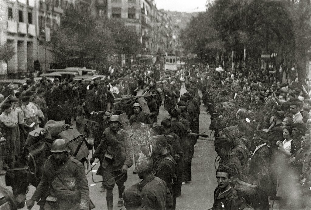 Spanish Nationalist troops entering the Donostia-San Sebastián boulevard (13 September 1936)